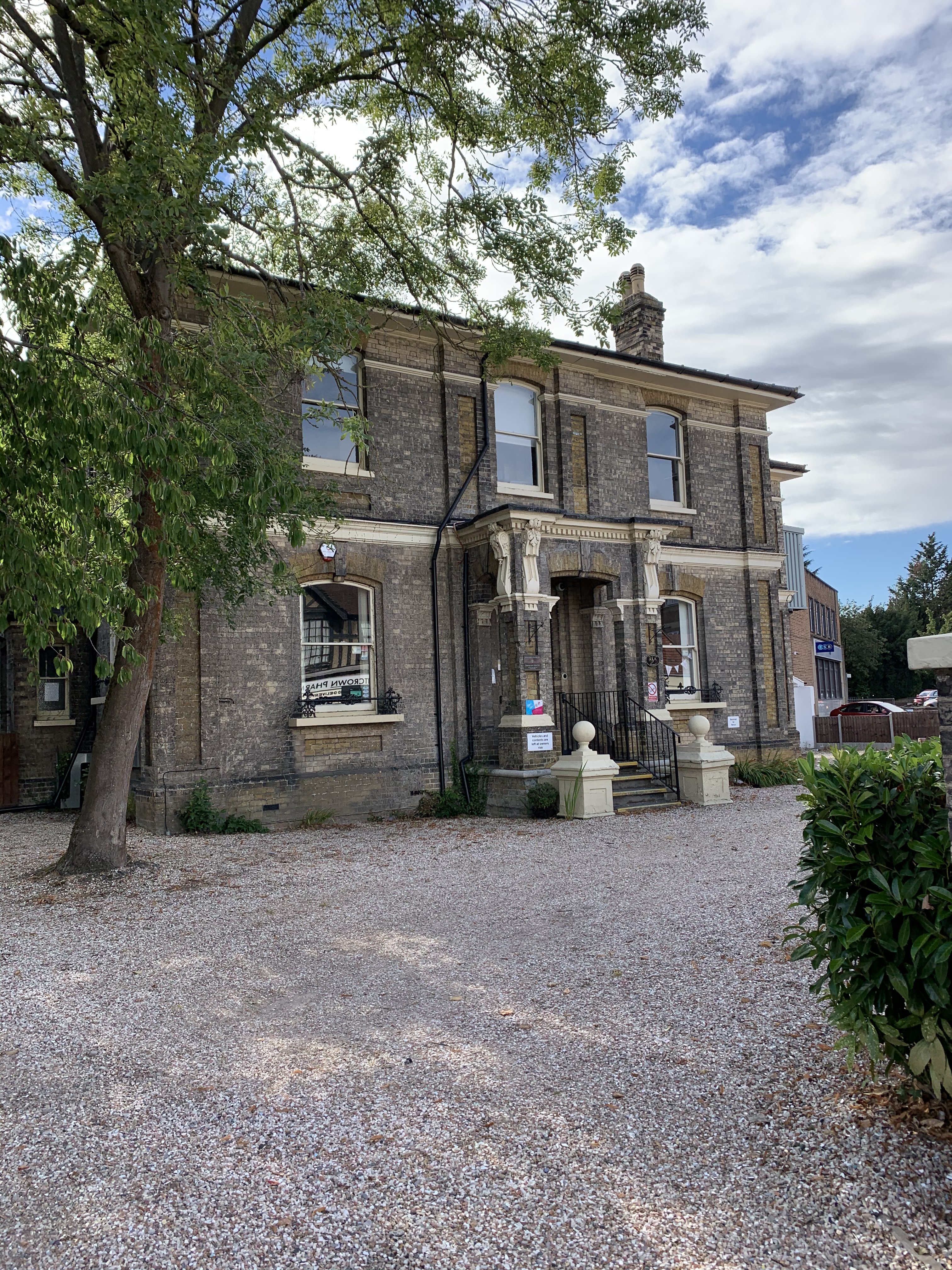 Balgores House, now Gidea Park Preparatory School, built 1850s